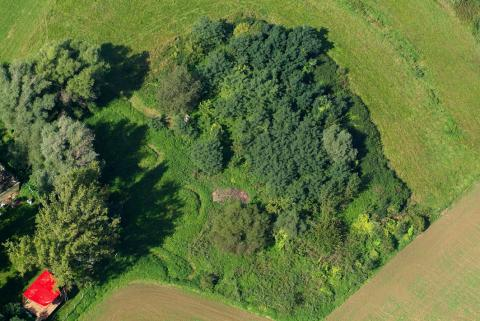 Castle of Kesző, Várkesző, Hungary, aerialphotgraphy This is a photo of a monument in Hungary, Identifier: 10560